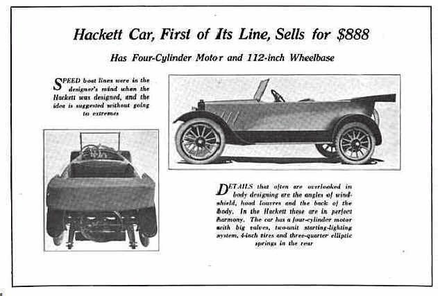 1917 advertisement for the Hackett Foiur, a short-lived lower middle class automobile